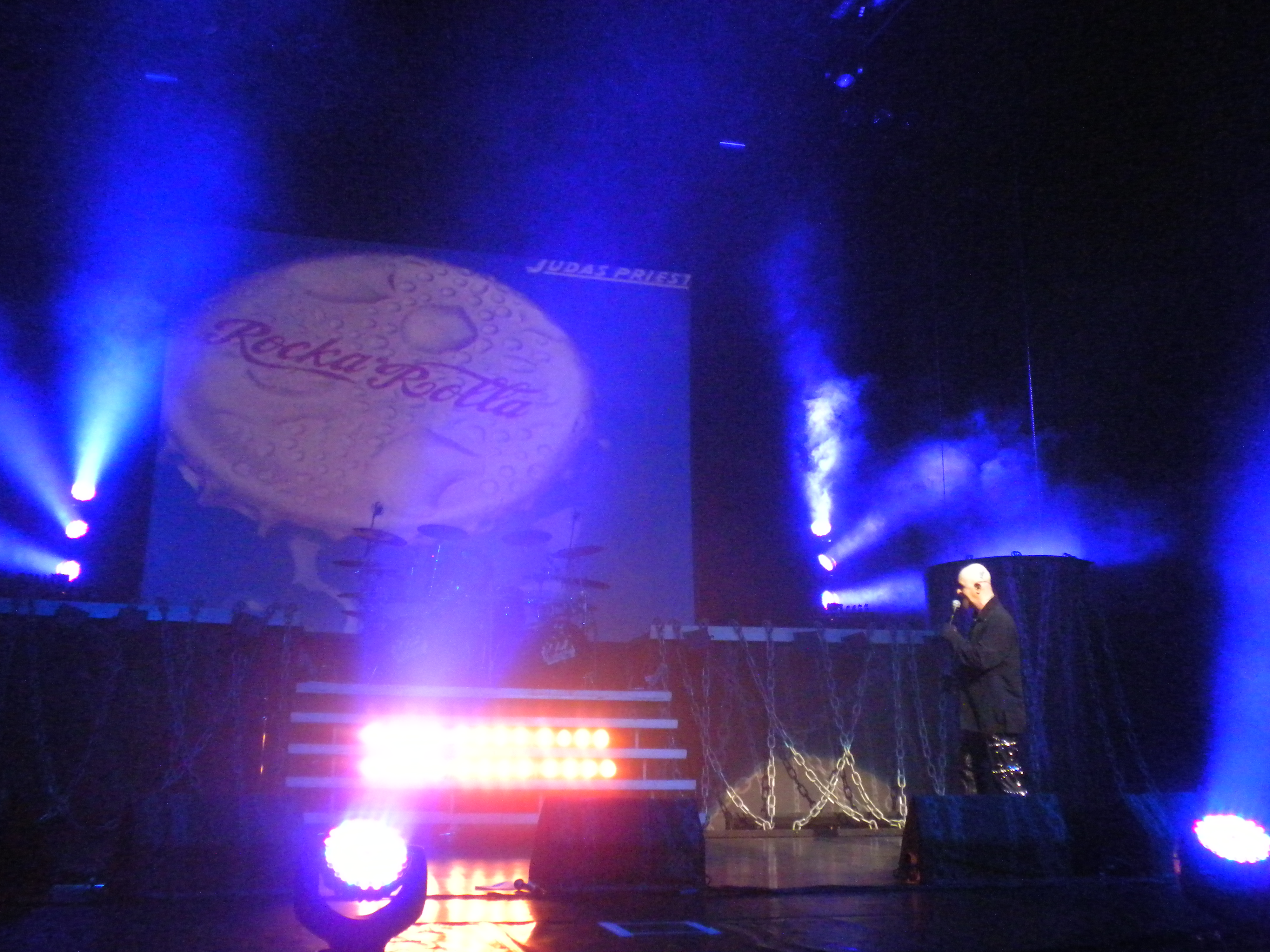 Rob Halford explains "Never Satisfied", from Judas Priest's first album, Rocka Rolla (1974), before performing the song at a concert at Montreal's Bell Center, as many fans were unfamiliar with the song.